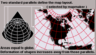 Condensed explanation of Albers conic-projection maps, rearranged as taller image, from larger, wider USGS file of GIF format. See enlarged view below, using a wikitable to expand beyond original size.